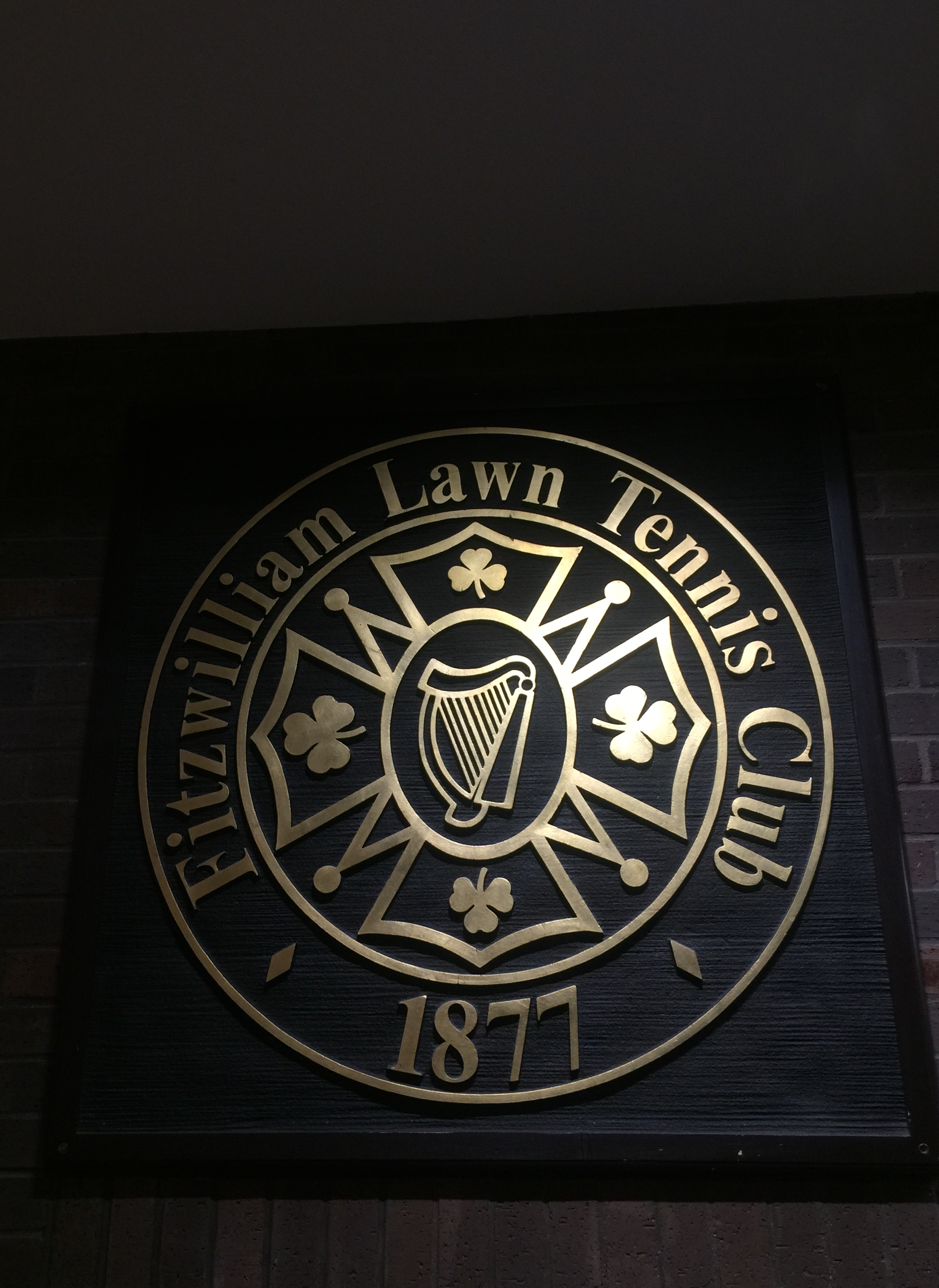 Where the Irish Tennis Open was held since 1972.